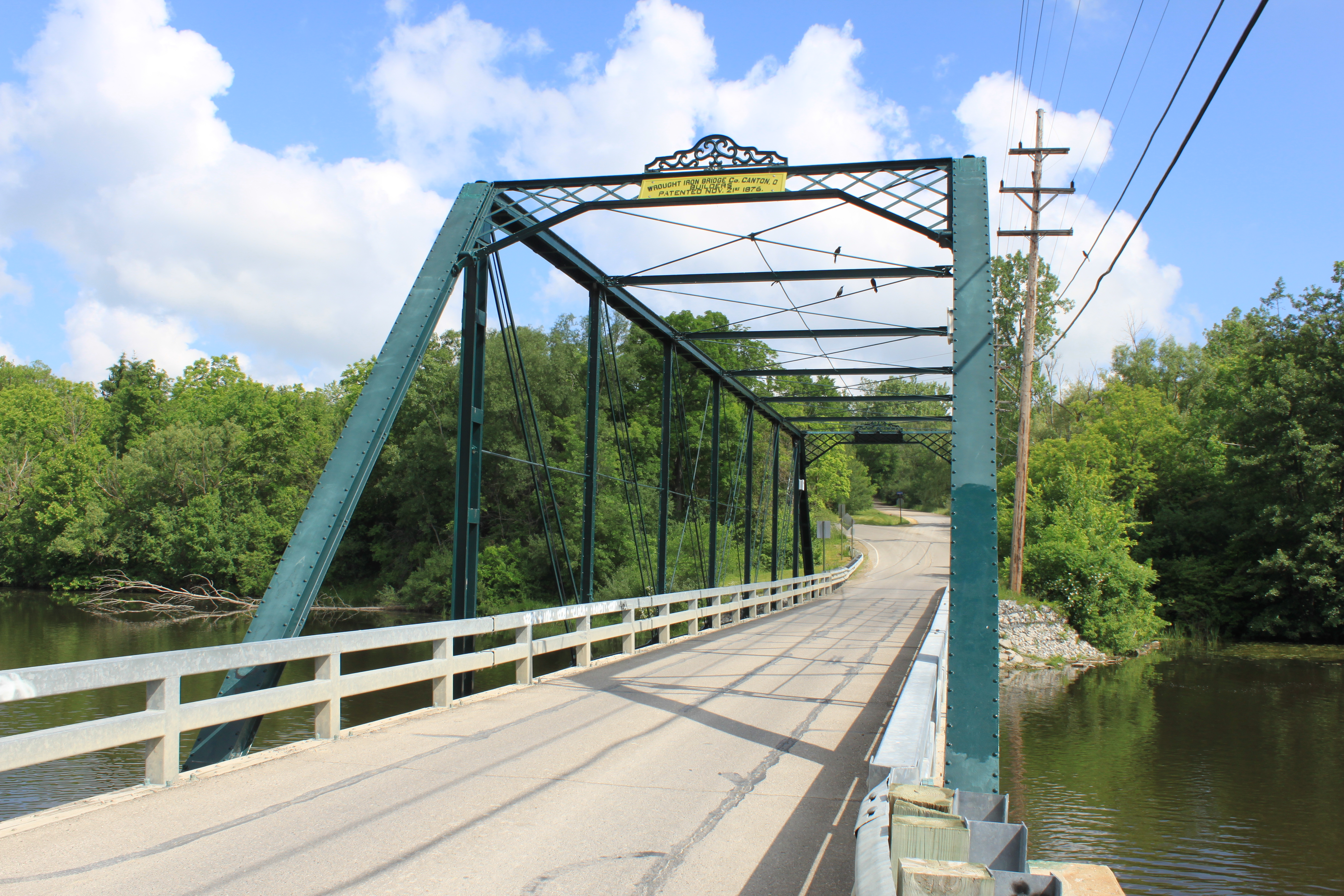 Maple/Foster Bridge constructed circa 1880 (possibly 1876) by the Wrought Iron Bridge Company in Barton Hills, Michigan, after rehabilitation in 2003. This bridge is on the site of the former Foster Mill (remains of which are visible only when Barton Pond is drained) and sits north of the former village of Foster, long since engulfed by Ann Arbor